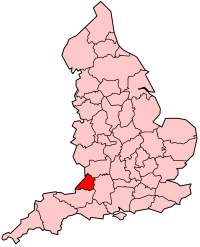 Former administrative county of England